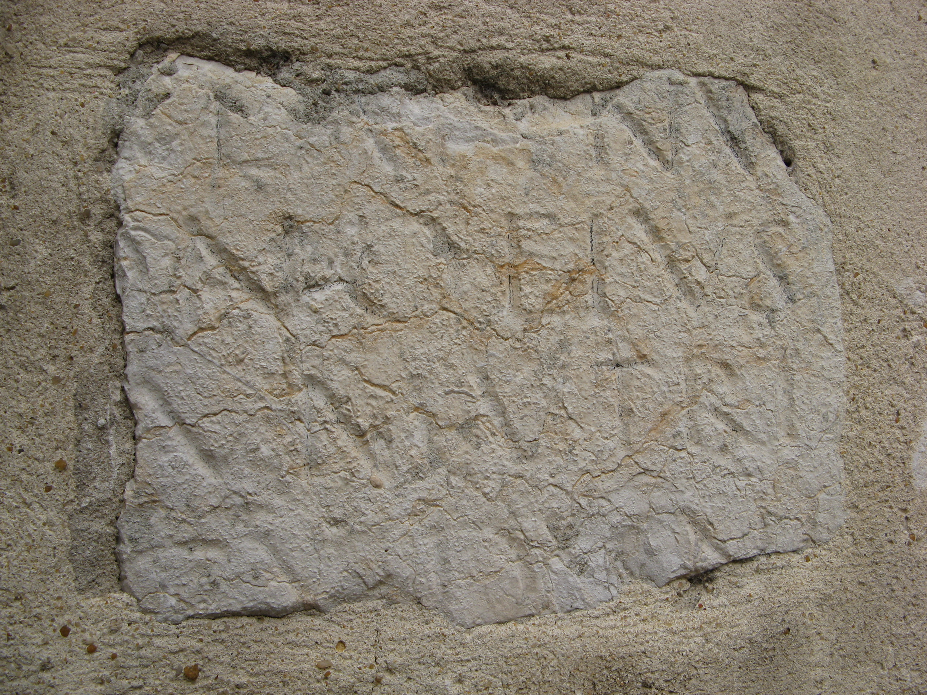 Ancient roman inscription in Montélimar (France). CIL XII, 1742, cf. p. 827.